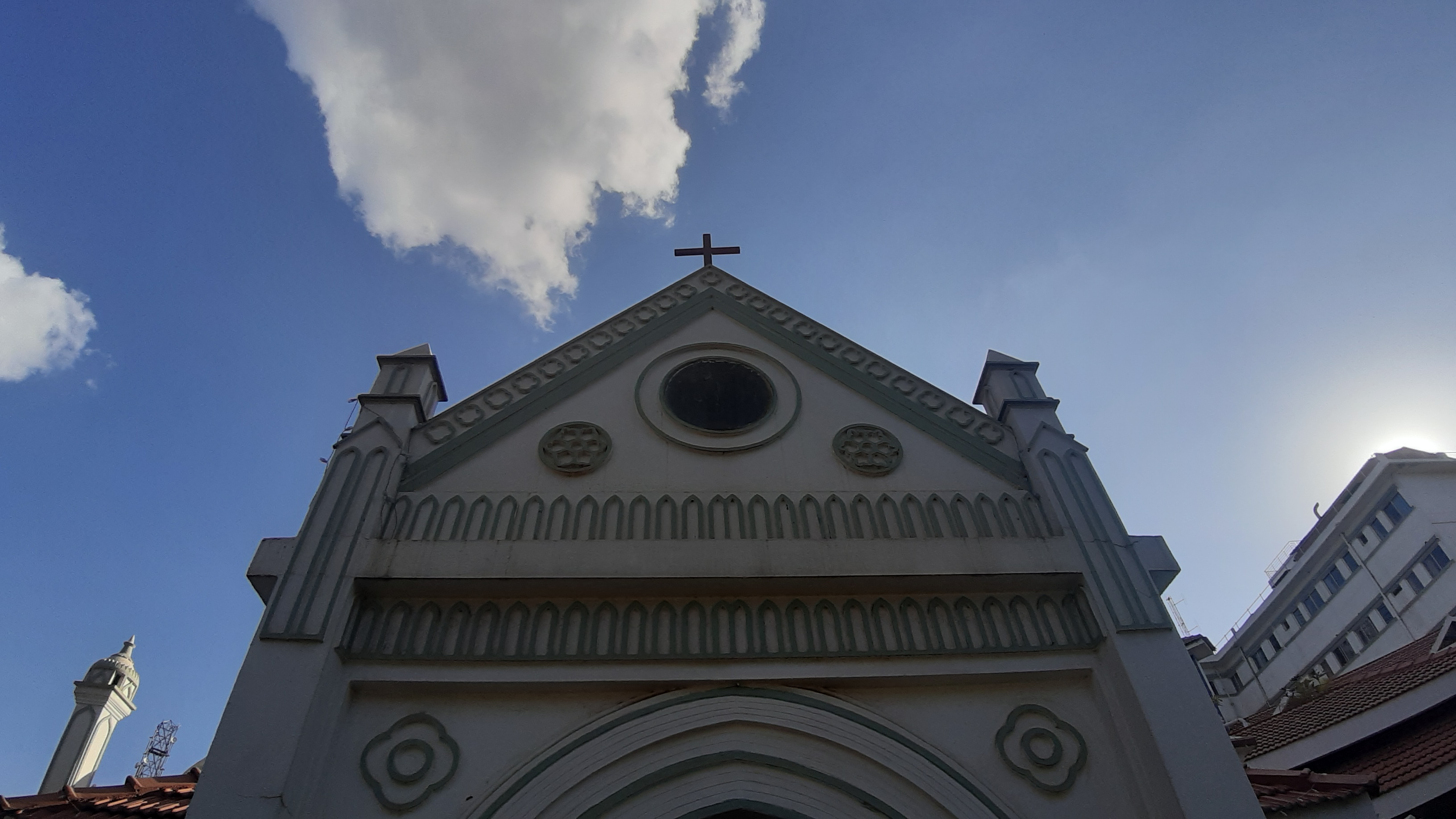 Narayana Health bangalore has a prayer place for various kind of religious group. Temple, churc, musqe etc are combine. This photo represent one side vie.